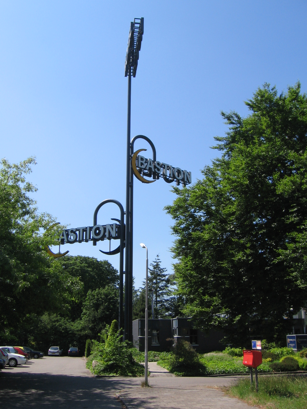 Bastion hotel, Bussum